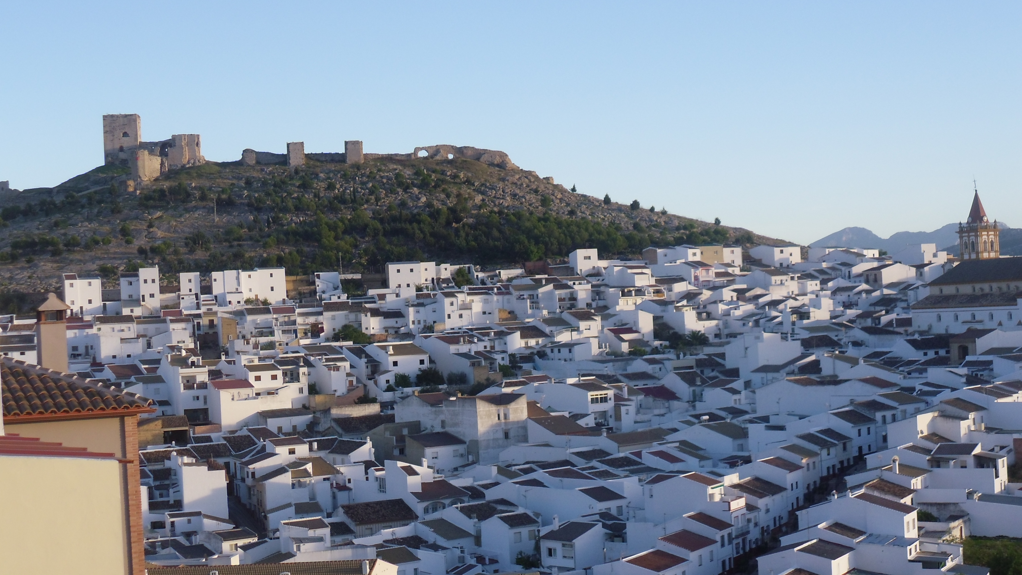 Teba 2013